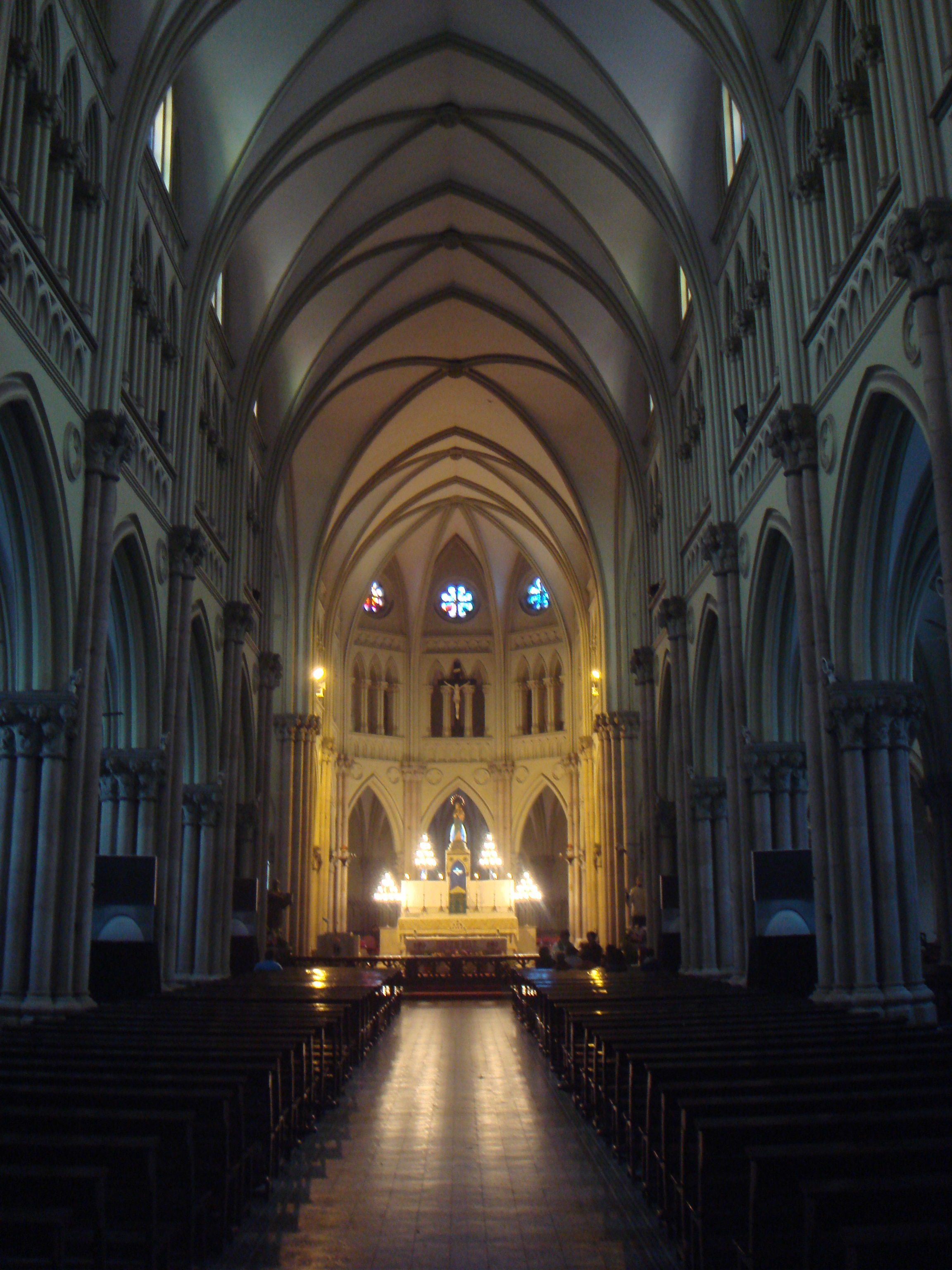 Saint_Ignatus_Cathedral Shanghai